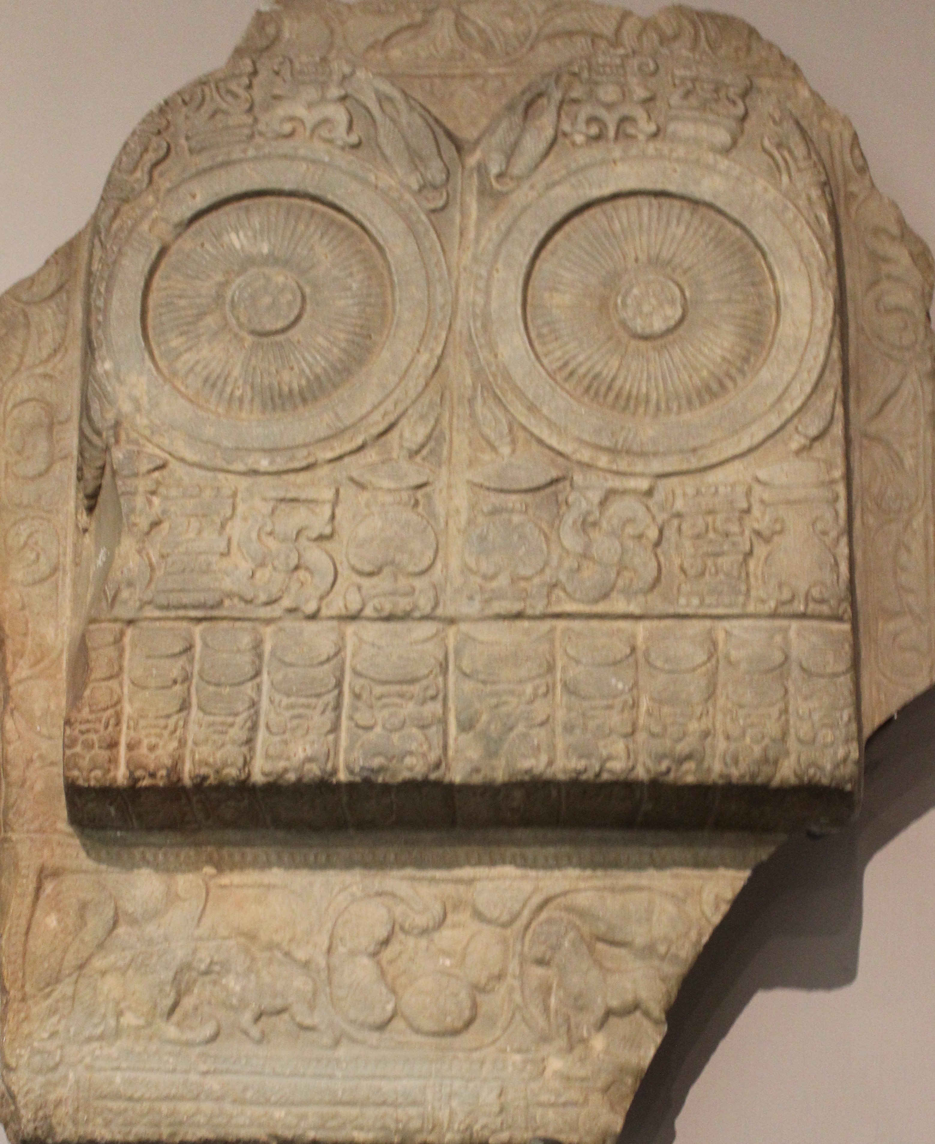 buddha pada in which both the feet are together